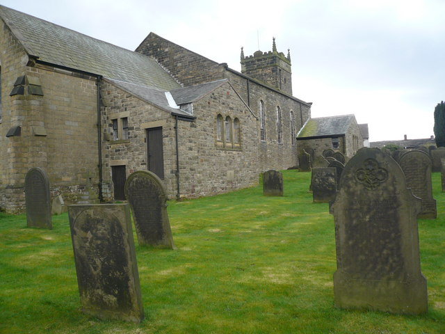 Holmesfield - St. Swithin's Churchyard View